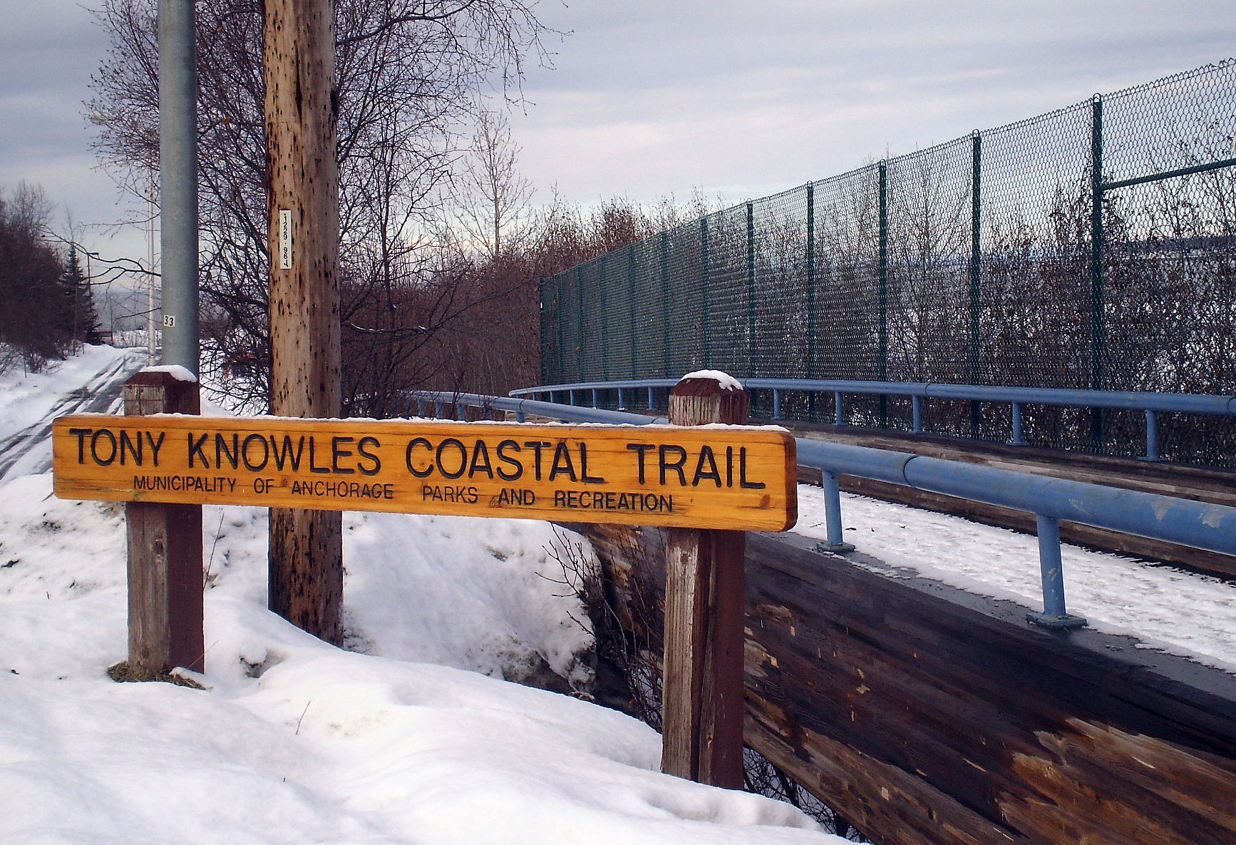 The northern terminus of Anchorage, Alaska's Tony Knowles Coastal Trail, located on West Second Avenue near its intersection with H Street, close to where Ship Creek empties into Knik Arm.